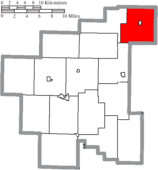 Map of the municipal and township boundaries of Noble County, Ohio, United States, as of the 2000 census, with the location of Beaver Township highlighted. Township borders are shown only in unincorporated areas in order to differentiate incorporated and unincorporated areas more clearly.